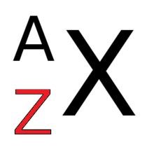 Where the atomic number is located in a chemical element identity.